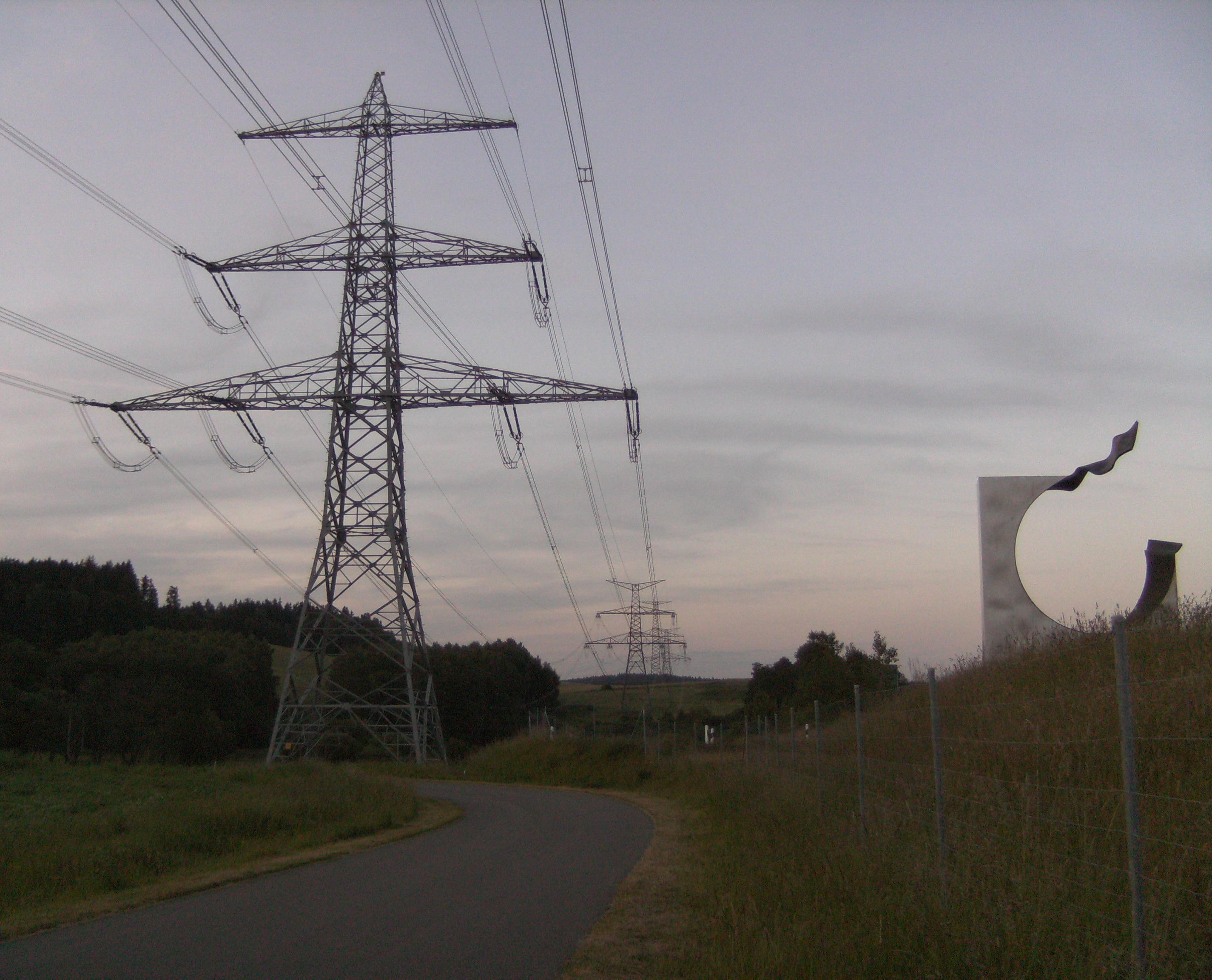 380 kV (nominal voltage, German designation) aka 400 kV (Czech nomenclature) power lines Etzenricht–Hradec (V441) and Etzenricht–Přeštice (V442) cross the German/Czech border. The pylon in the foreground stands in Waidhaus (Germany), the one in the background in Rozvadov (Czechia). On the right a sculpture, named "Via Carolina".